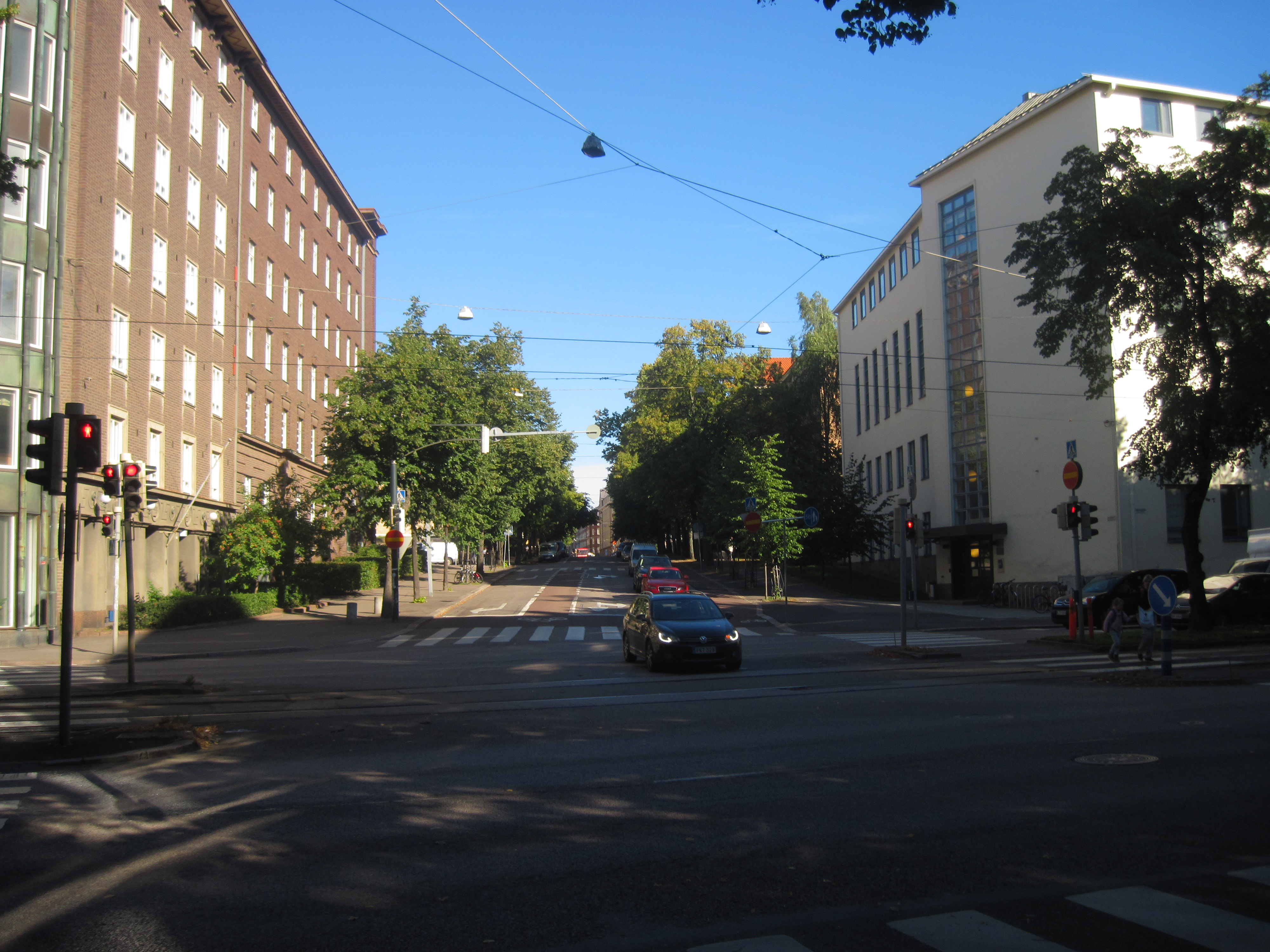 Arkadiankatu in Helsinki, seen from the corner of Mechelininkatu